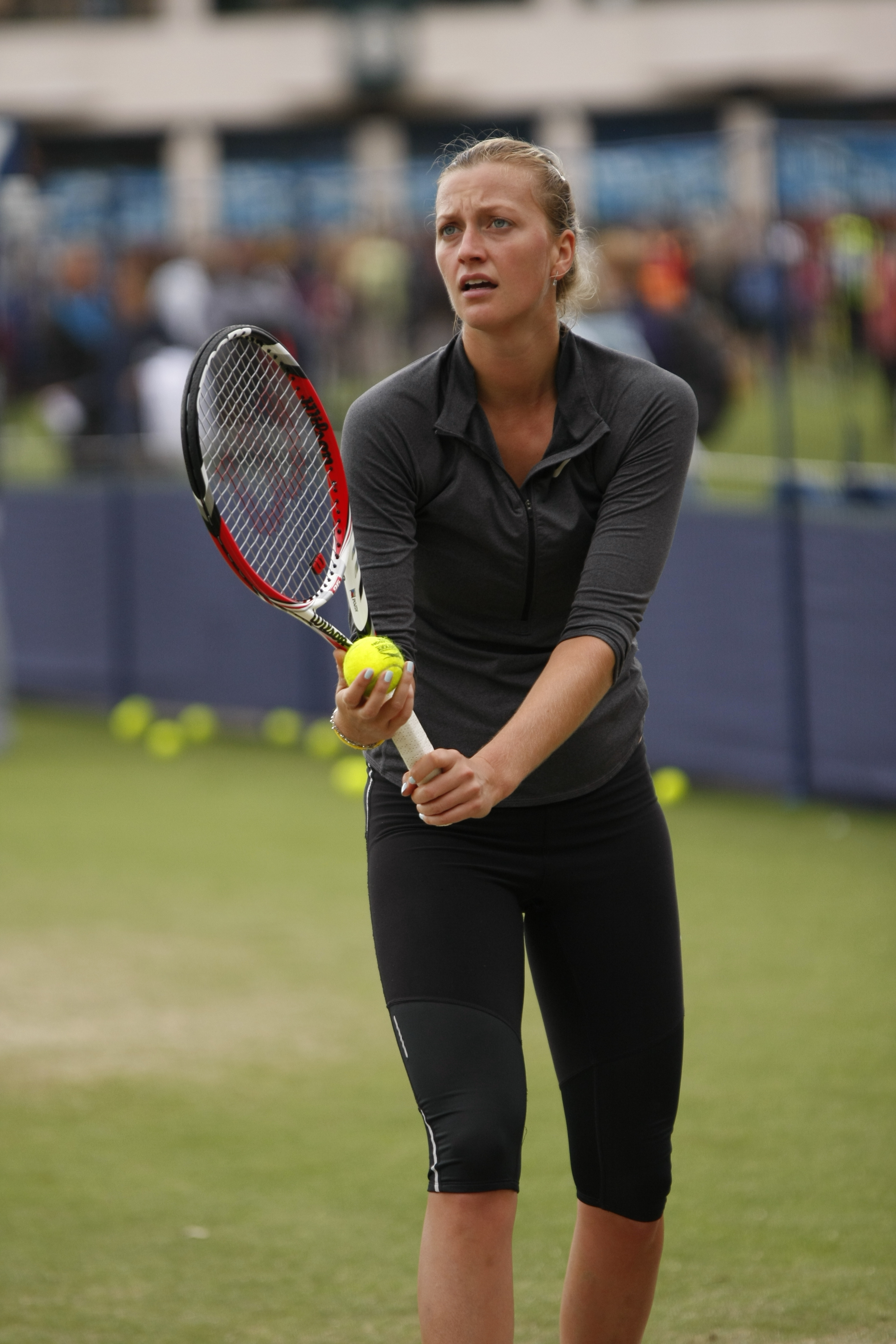 Kvitová at the Aegon International, June 2014